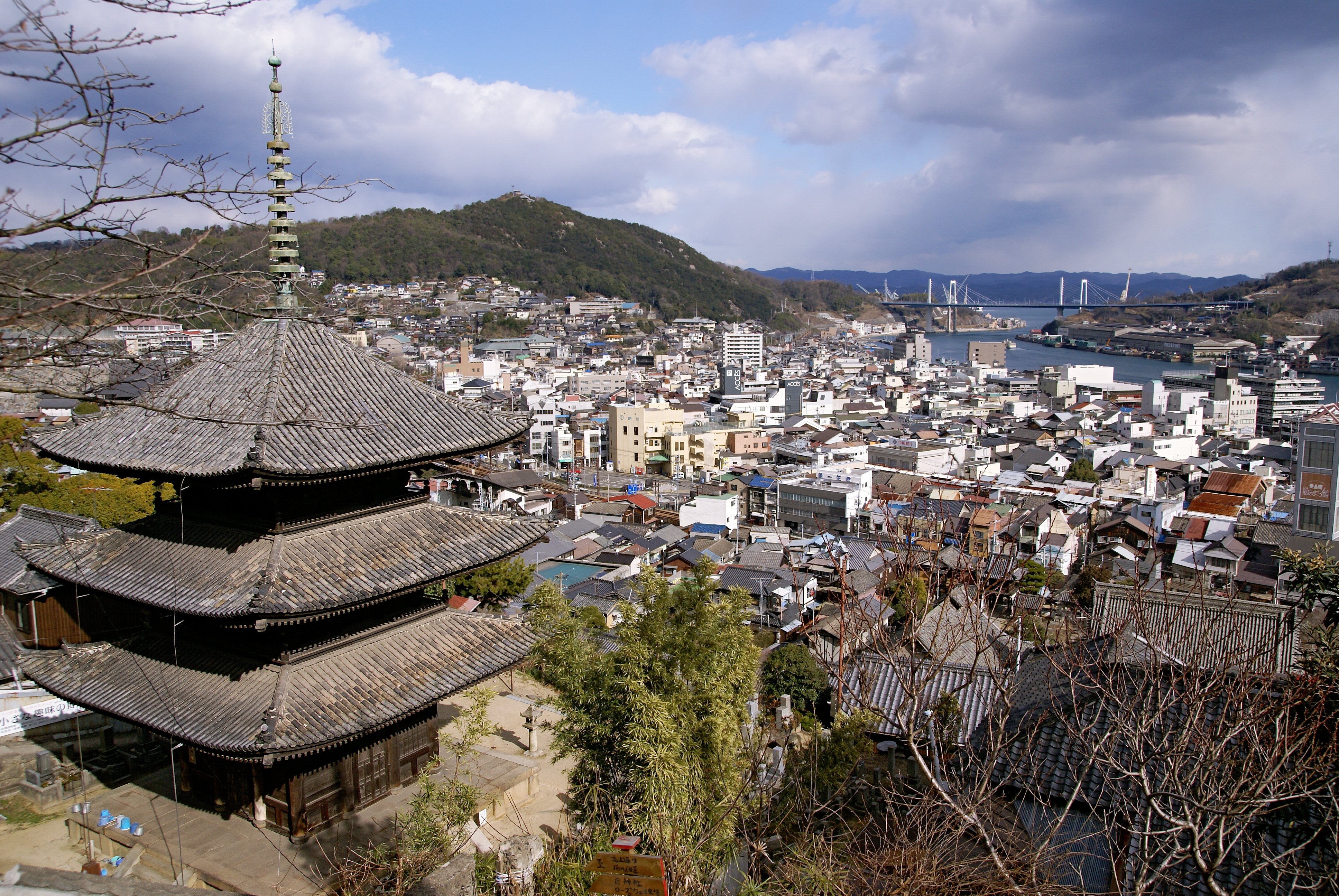 Tennei-ji in Onomichi, Hiroshima prefecture, Japan